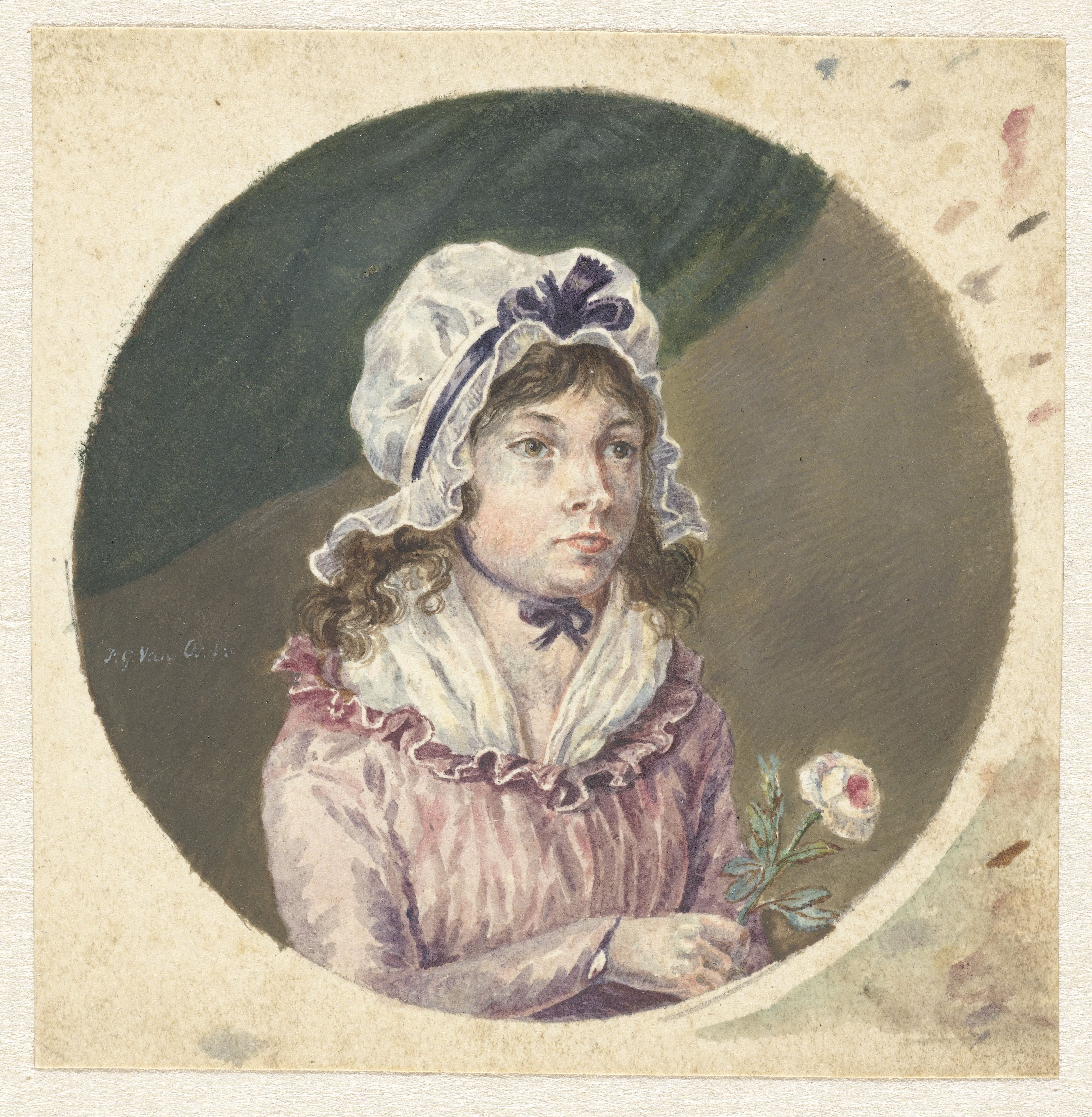 Gouache (watercolor) portrait of Dutch painter Maria Margaretha van Os, painted circa 1810[1] by one of her brothers, Pieter Gerardus van Os. Gifted to the Rijksmuseum, Amsterdam August 1973 as a gift from E. Schoorl, Haarlem.